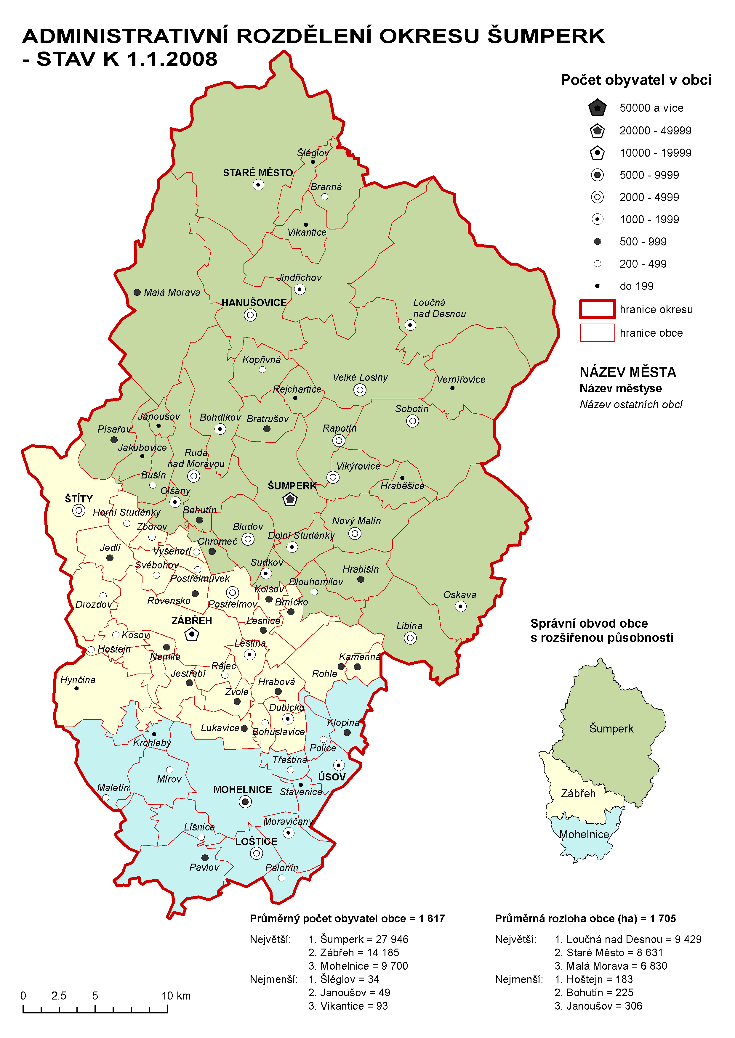 Šumperk district